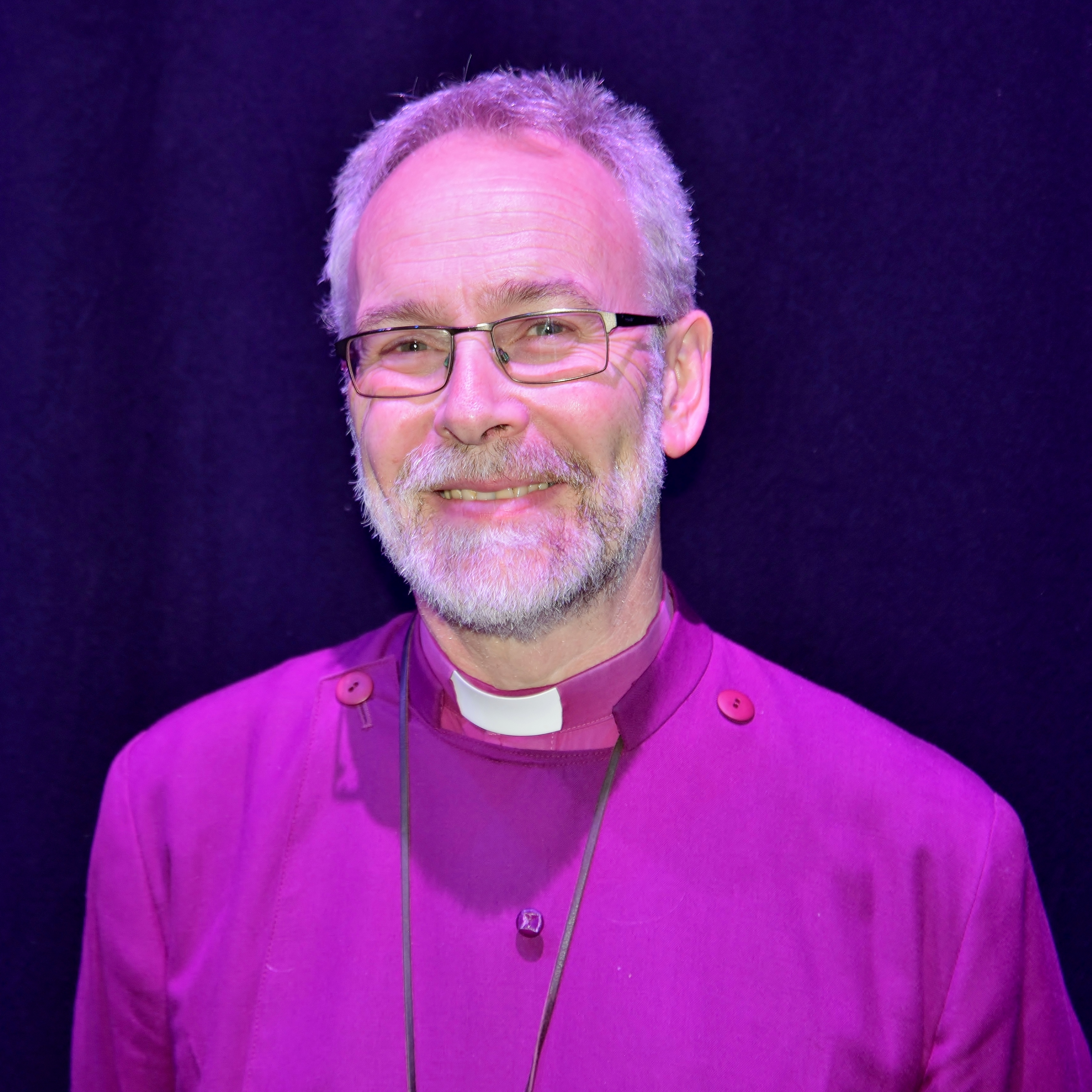 Portrait of Jeremy James, assistant bishop in the Anglican Diocese of Perth, at the annual Synod of the diocese at Peter Moyes Anglican Community School, Mindarie